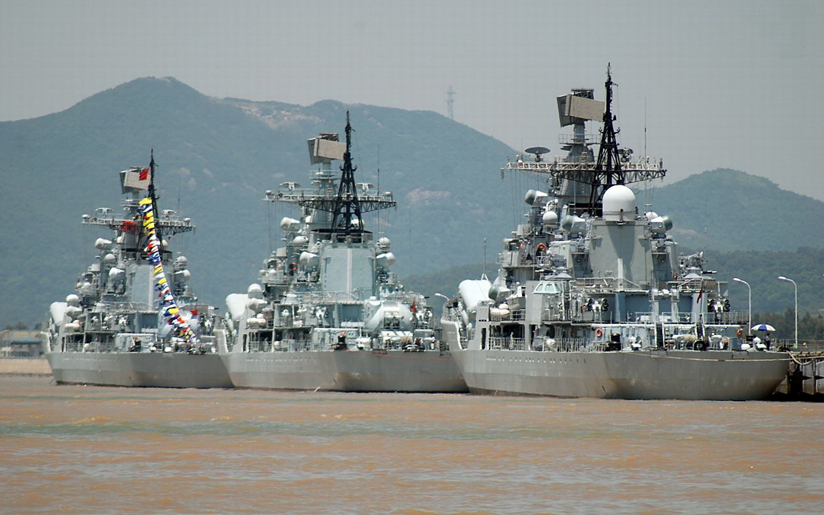 Fleets in Dong Hai (near Shanghai?).